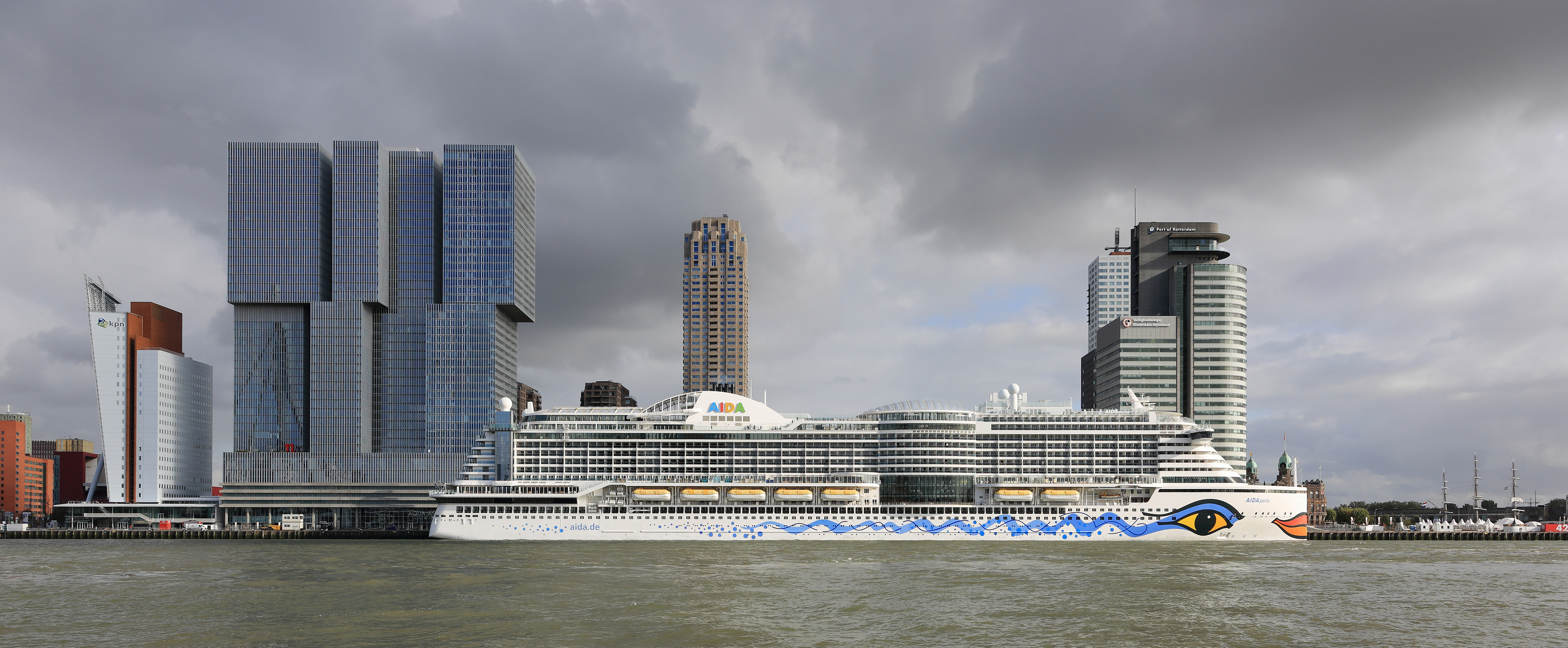 AIDAperla at Wilhelminapier in Rotterdam with the high-rises De Rotterdam and World Port Center.